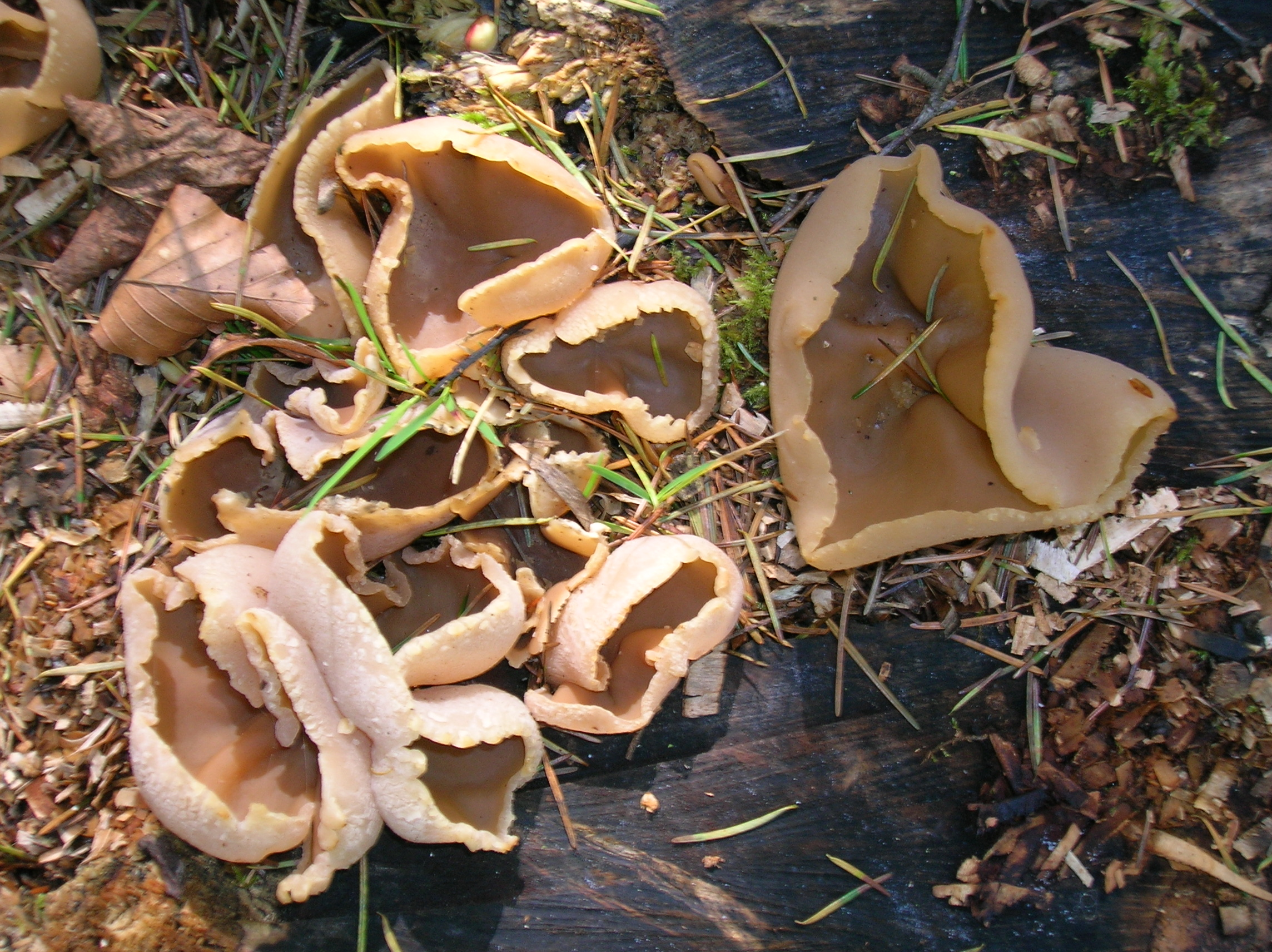 Peziza repanda, the Palamino Cup mushroom. Dean Country Park, Kilmarnock, East Ayrshire, Scotland